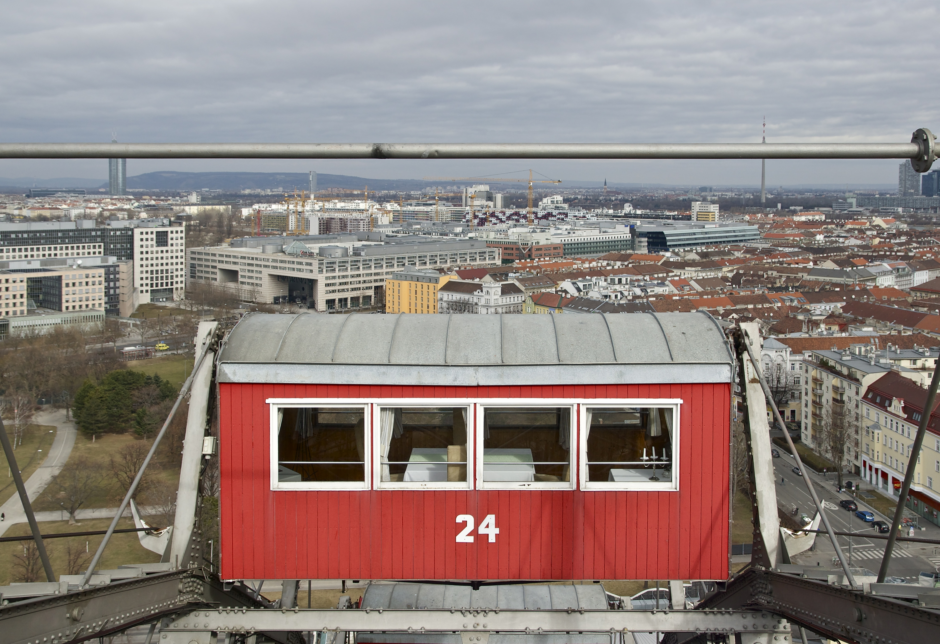 One of the 15 gondolas of the Ferris Wheel ("Wiener Riesenrad") of the Prater park. May be rent for a romantic dinner over Vienna, Austria.